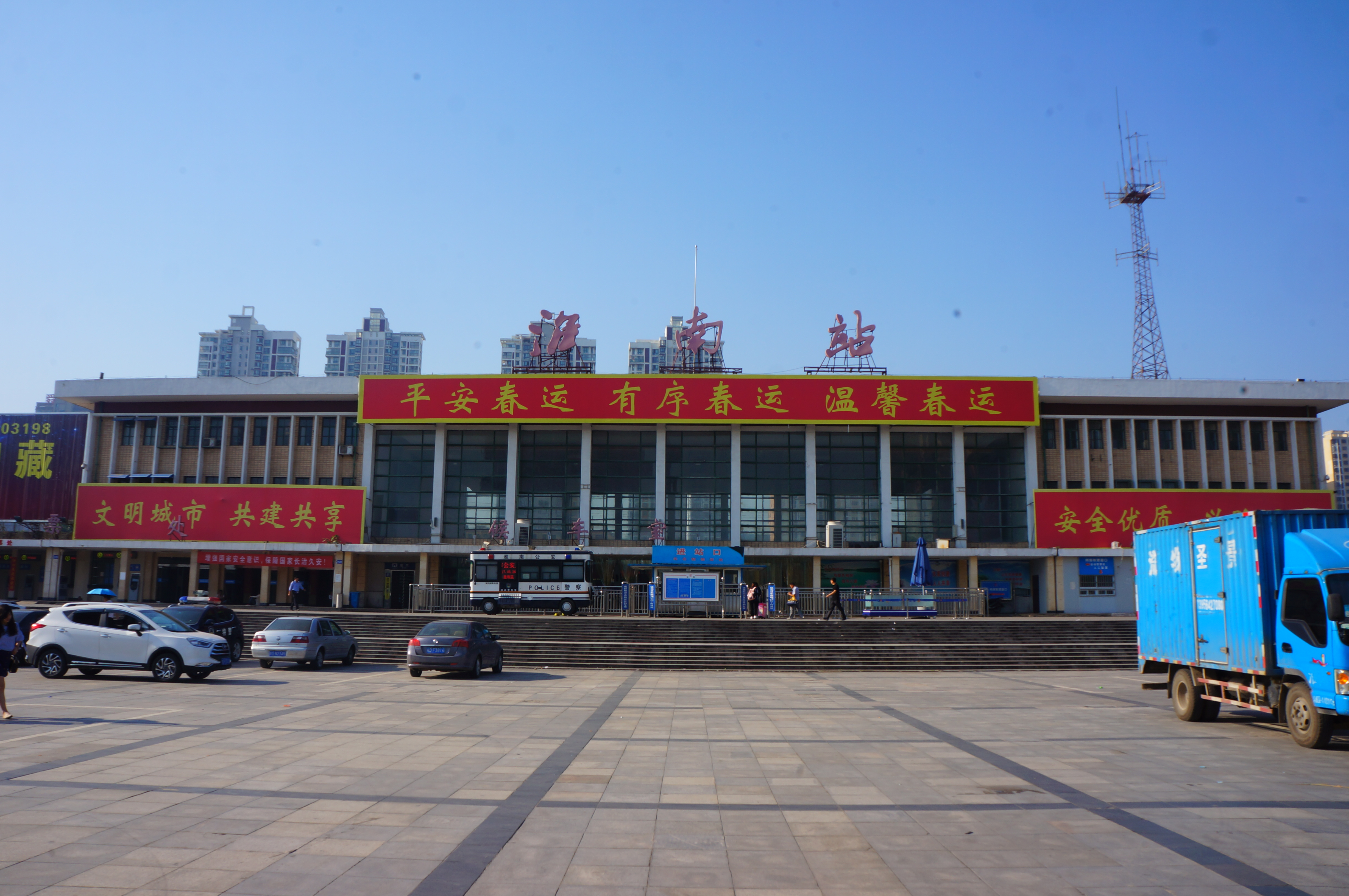 201705 Facade of Huainan Station. No images about Huainan City because I fall on sleep on the bus to Huainandong Station...but surprisingly I met a "Christian" missionary at the bus station